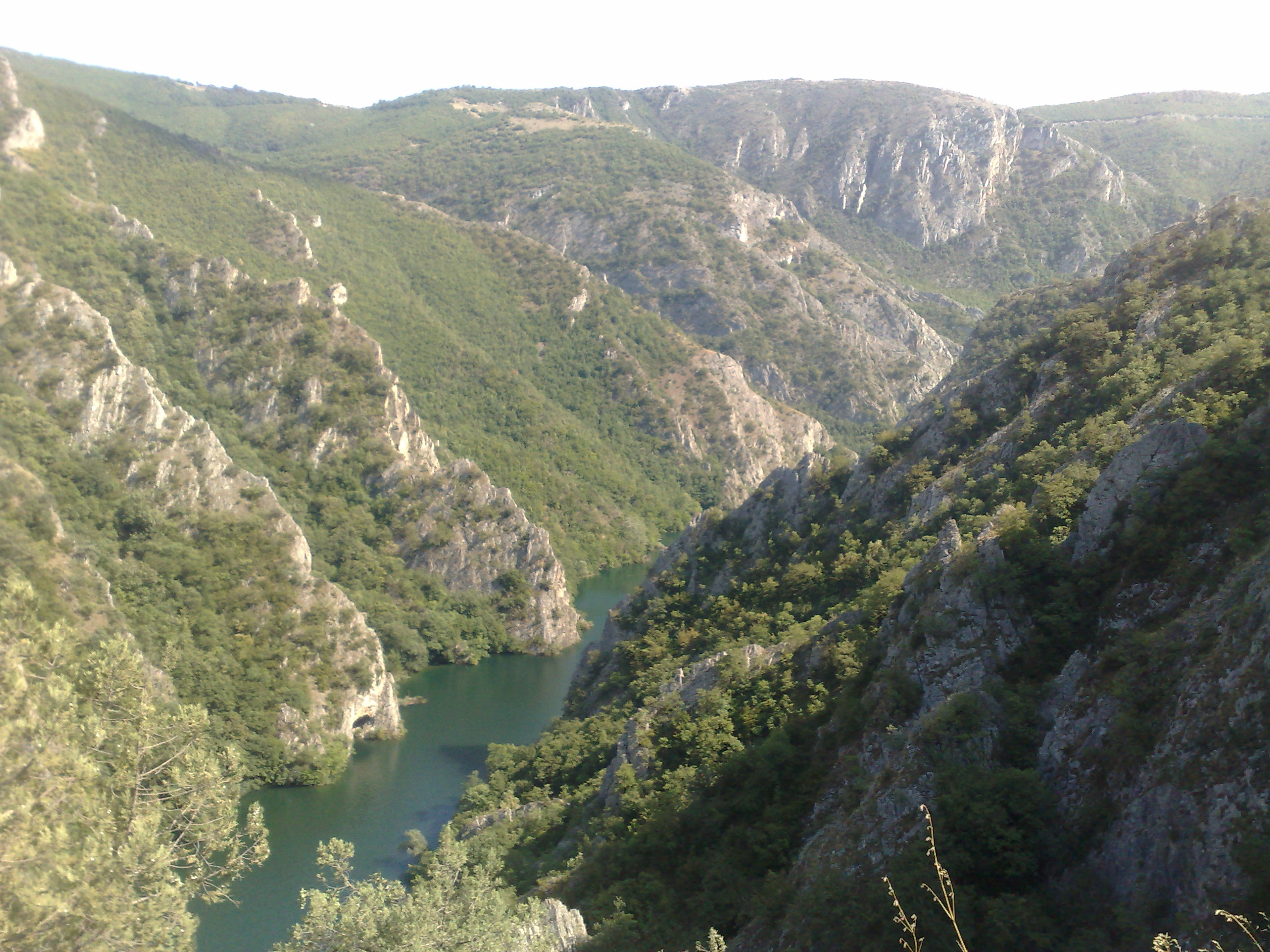 Matka Canyon, Macedonia